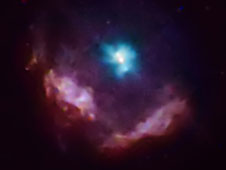 This Chandra image shows the supernova Kes 75. The pulsar is in the center of the blue area at the top.earlier in 2006.